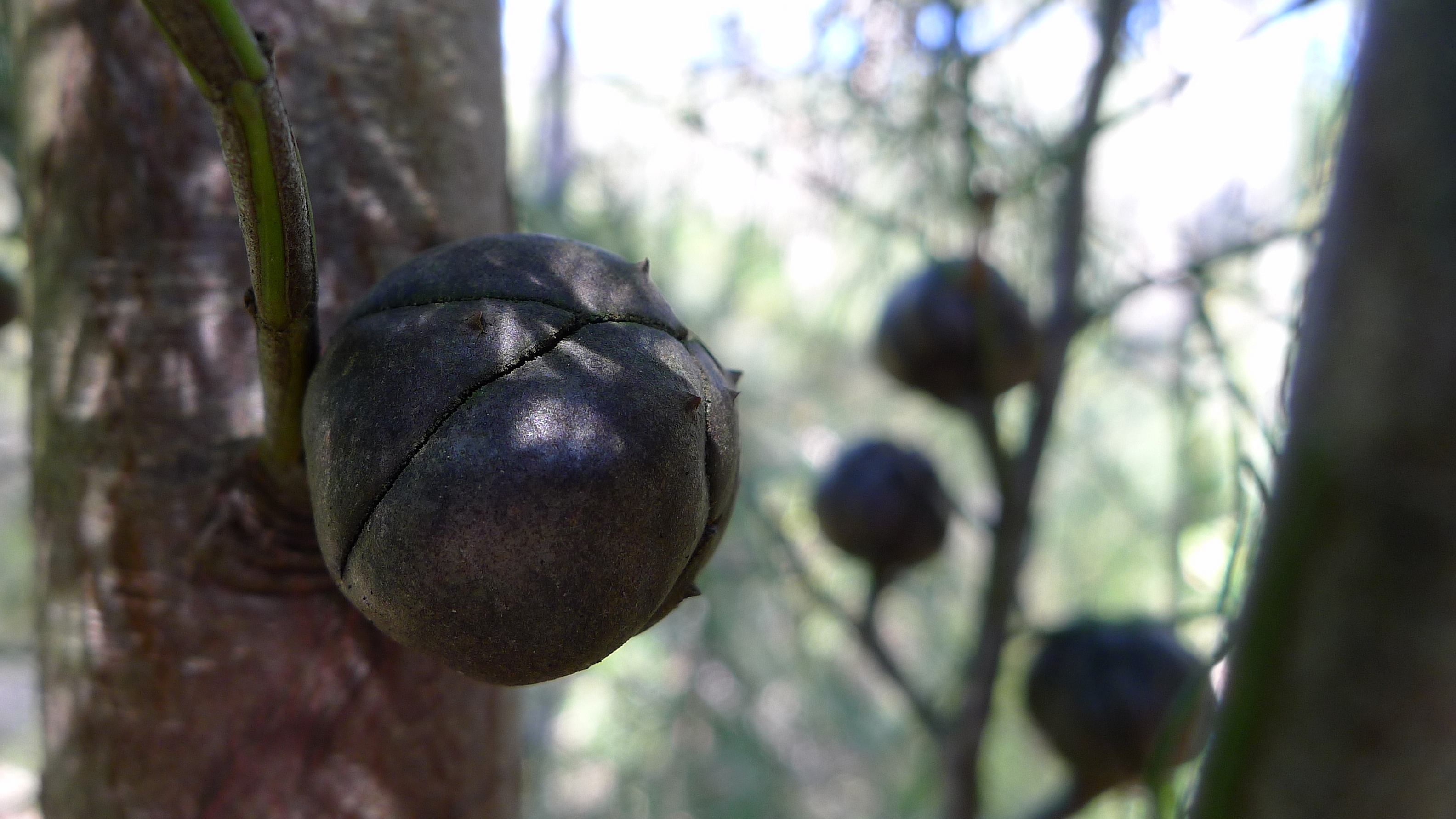 Globular shaped female cone of Muellers Cypress Callitris muelleri. Royal National Park, NSW, Australia.